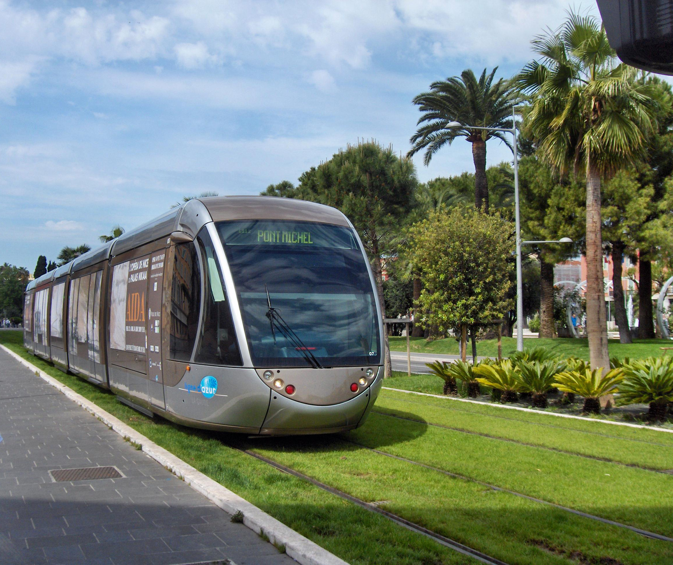 Nice tramway, France